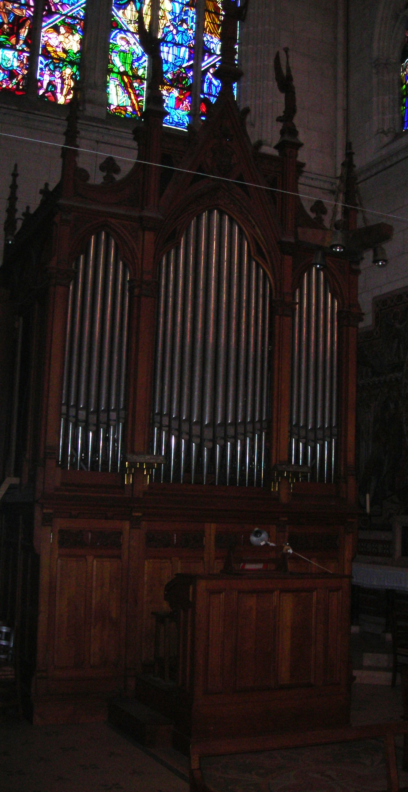 Organ of the Basilique Notre-Dame de Montligeon in France (departement of Orne)